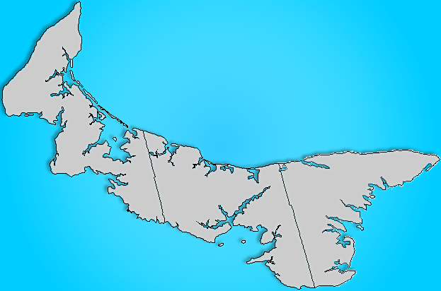 Contour of Prince Edward Island, Canada